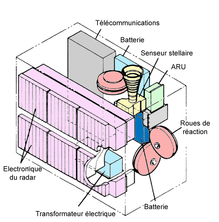 Diagram showing the internal components of the Forward Equipment Module.Version with french labels.